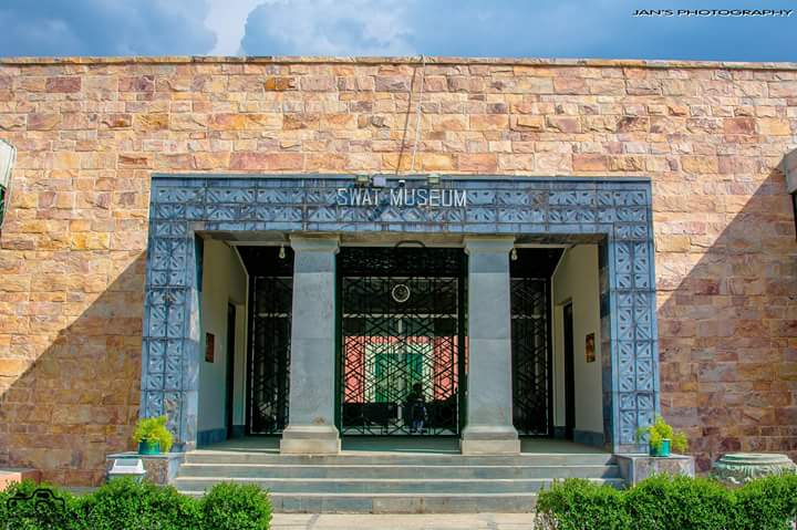 Swat Museum built by Italian mission in 1960's